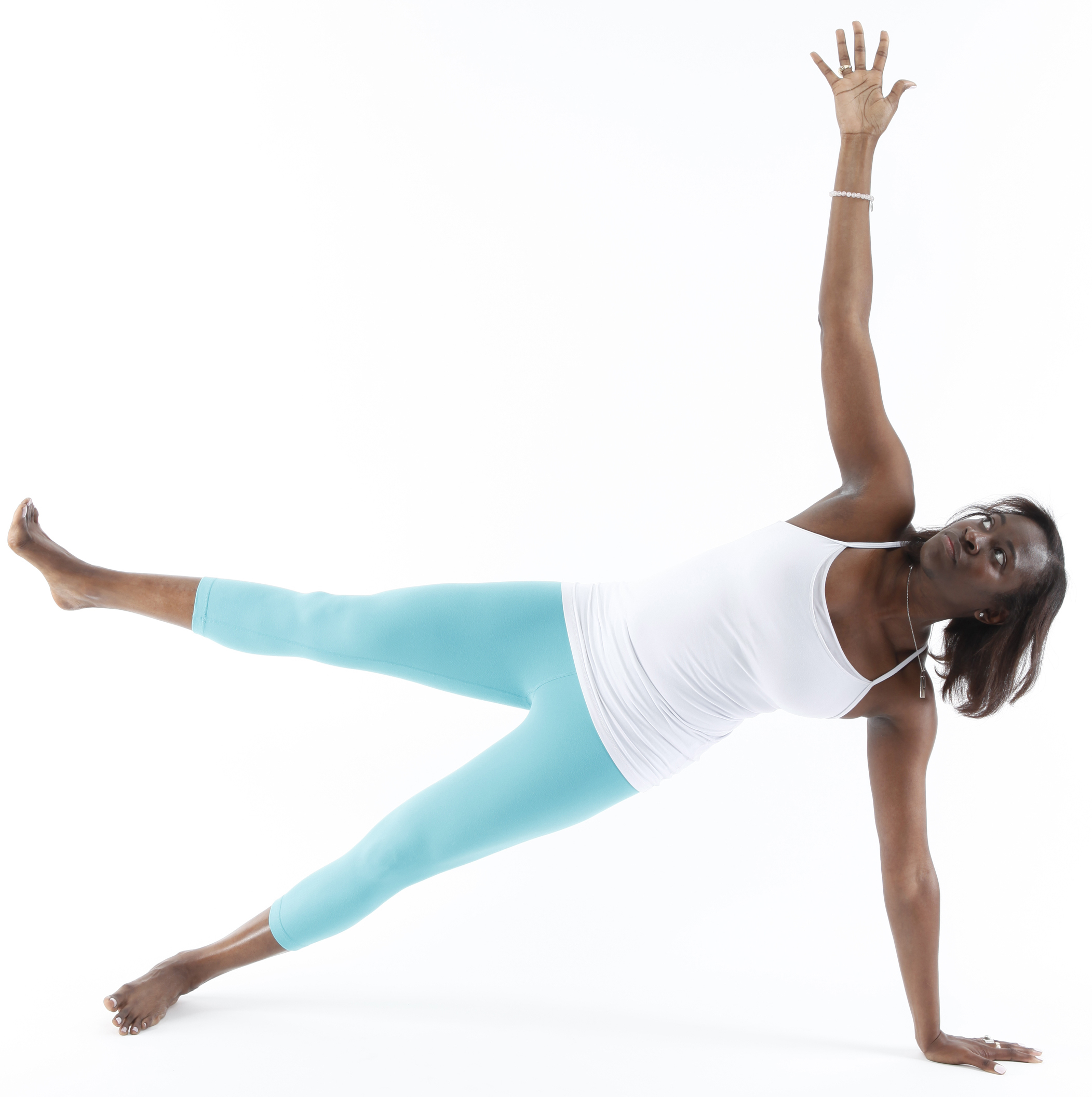 Plank pose, Vasiṣṭhāsana (also written Vasishthasana)